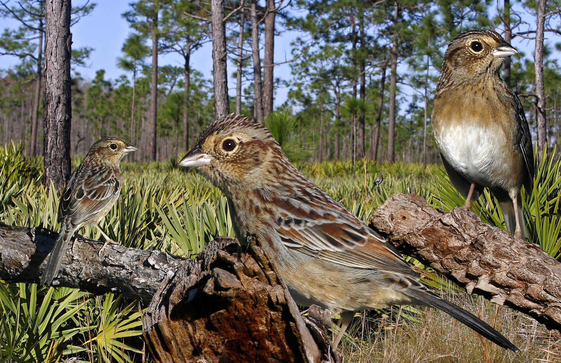 Bachmann’s Sparrow From The Crossley ID Guide Eastern Birds